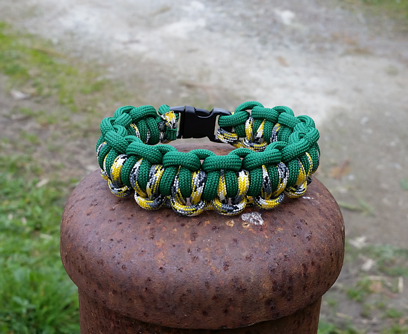 Survival bracelet with tying "Millipede"